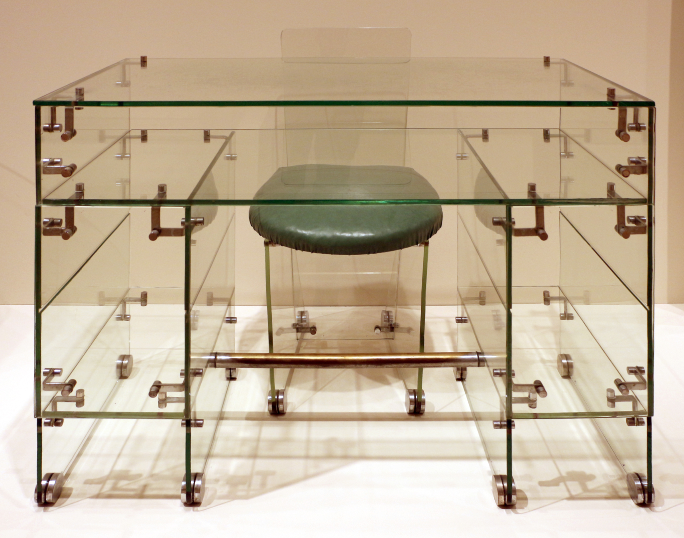 Furniture in the Indianapolis Museum of Art